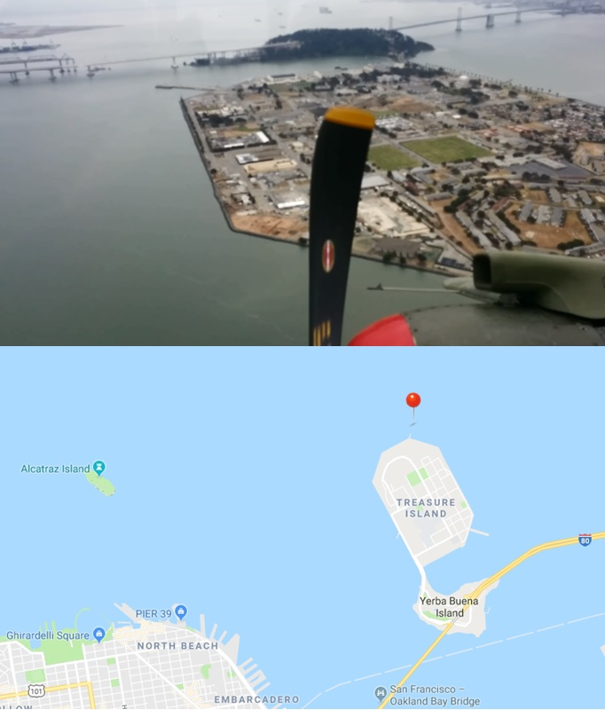 The view and position of Collings' B-25 Mitchell bomber over San Francisco captured by the ground station at Moffett Field with a smartphone ADS-B.